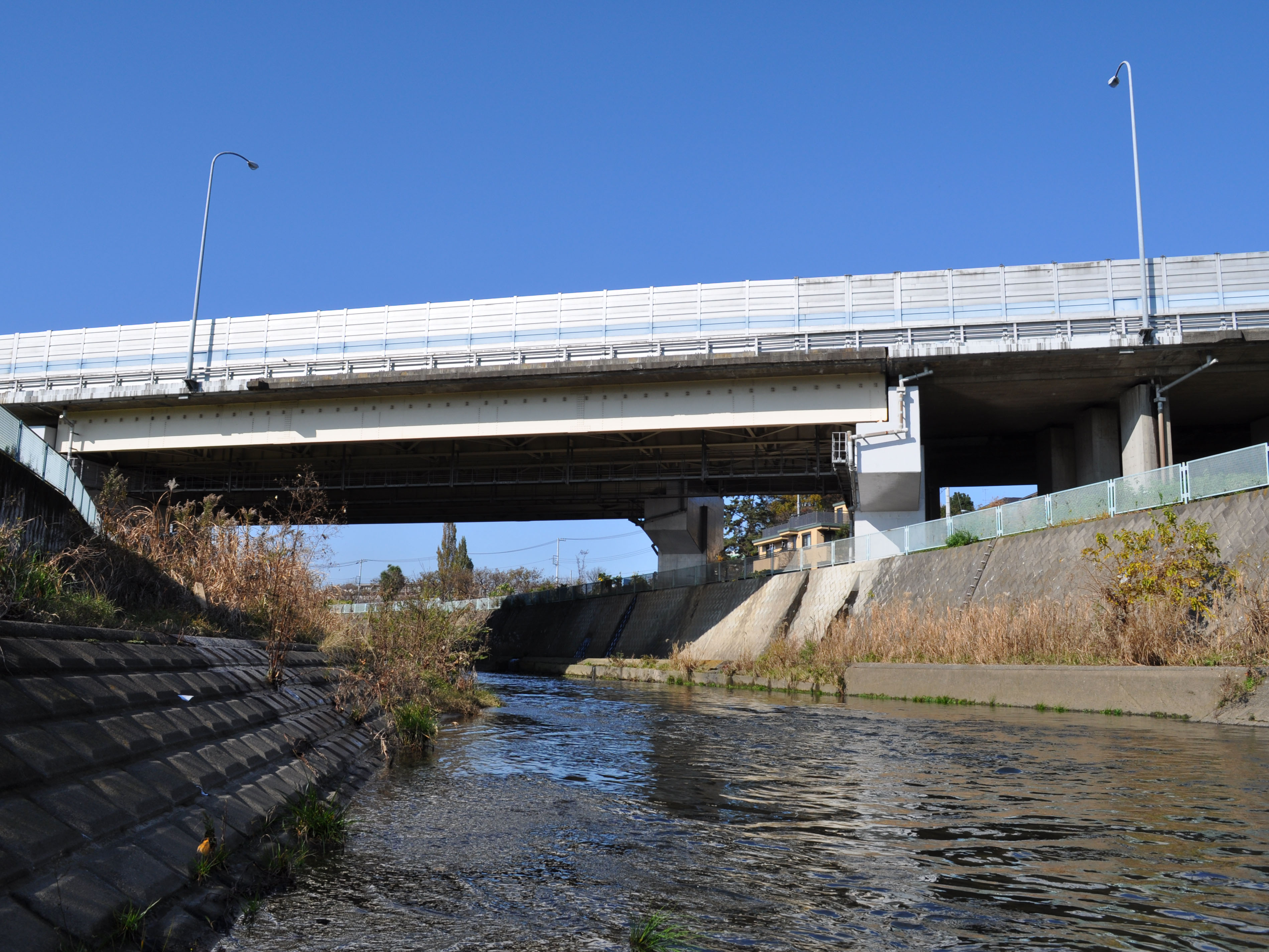 Onda River passing under Tomei Expressway in Aoba-ku, Yokohama, Japan.